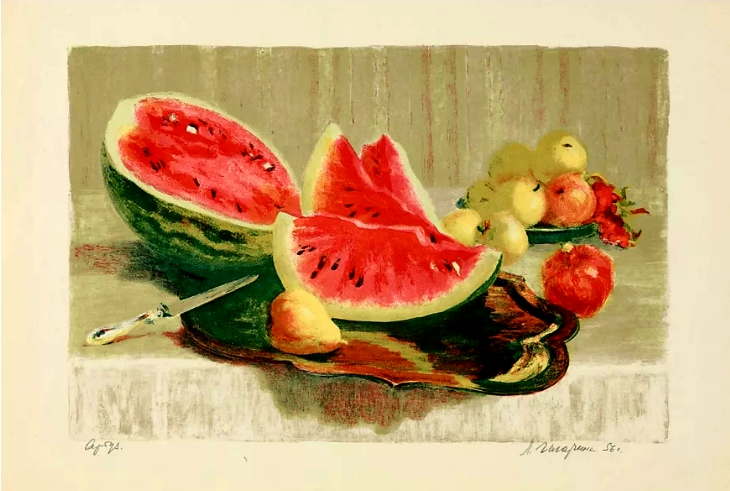 Lidia Gagarina is a Russian artist